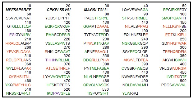 La seqüència dels aminoàcids de la isoforma llarga de la Glucocerebrosidasa.